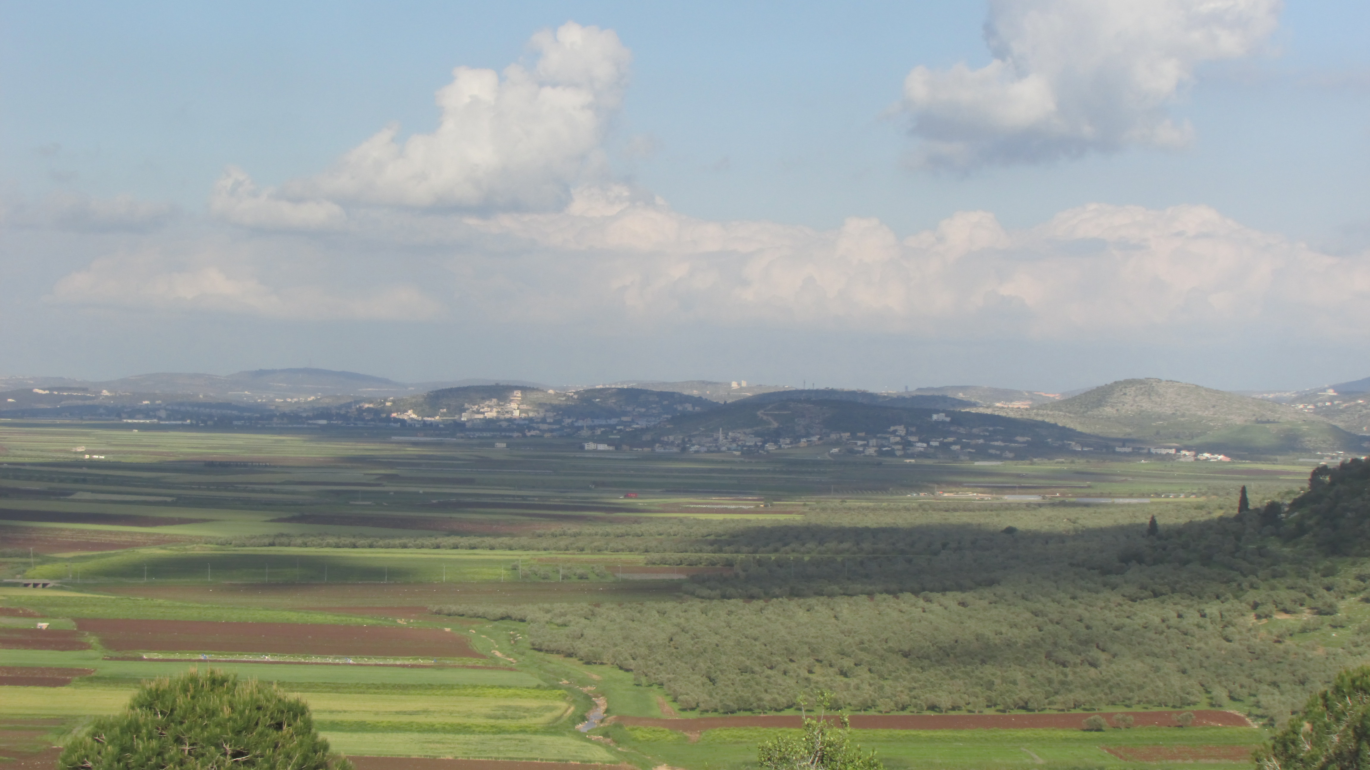 Dothan Valley from Meoz Zvi. View to the east. On the right, the low hill is Tel-Dothan. Behind it, the much higher hill top, is Qasr Mahrun. More to the left is Bir al-Basha. To the left are houses of Ash-Shuhada. Further to the left, up on the mountain, is Malkishua.